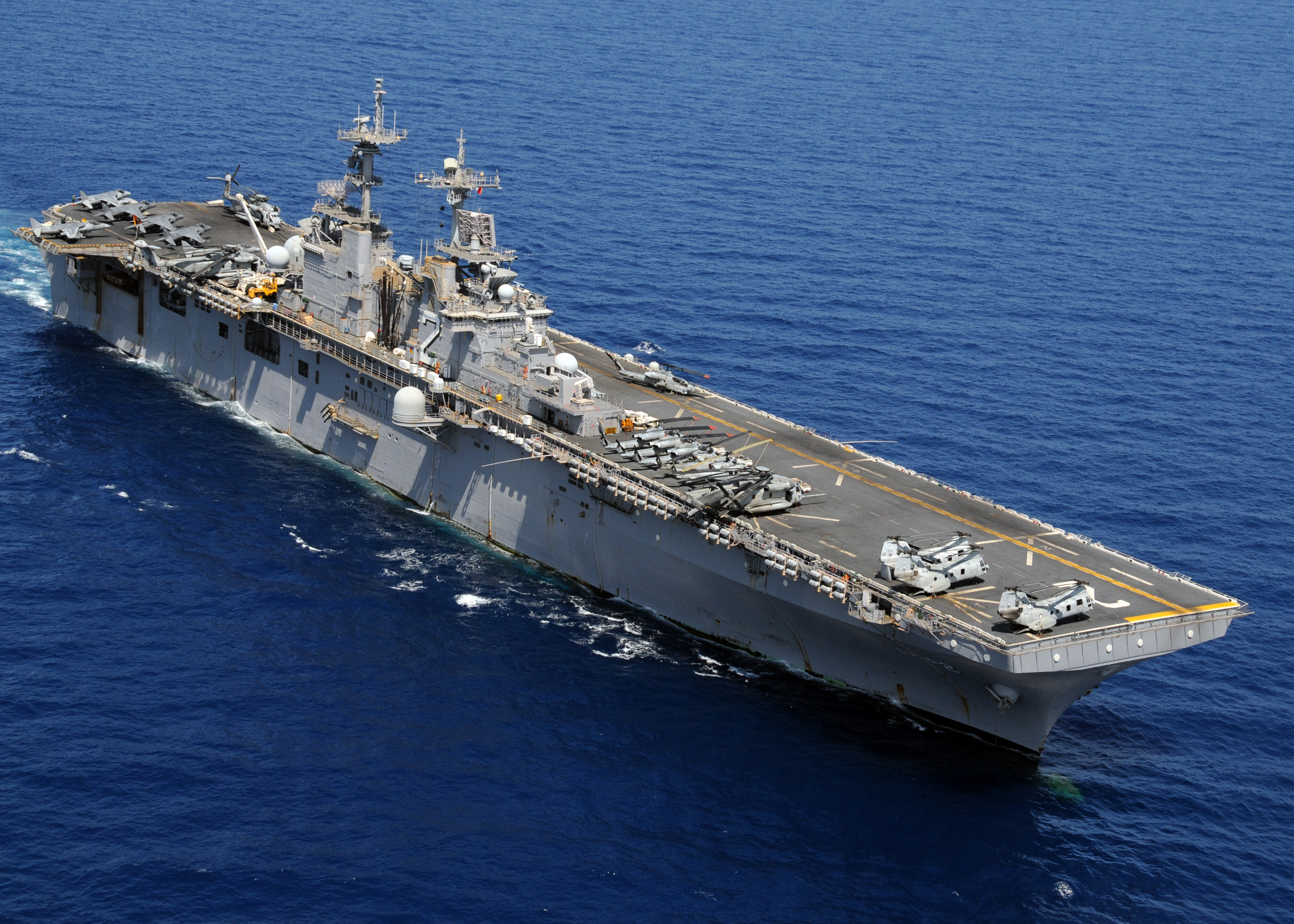 SOUTH CHINA SEA (March 14, 2010) The forward-deployed amphibious assault ship USS Essex (LHD 2) cruises the South China Sea while participating in exercise Balikatan 2010 (BK 10). BK 10 is an annual, bilateral exercise designed to improve interoperability between the U.S. and Republic of the Philippines. (U.S. Navy photo by Mass Communication Specialist 2nd Class Mark R. Alvarez/Released)